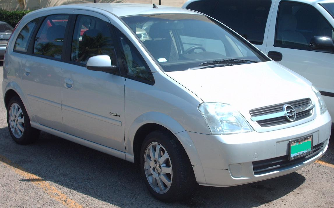 Chevrolet Meriva photographed in Mazatlan, Sinaloa, Mexico.